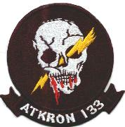 Attack Squadron 133 Insignia